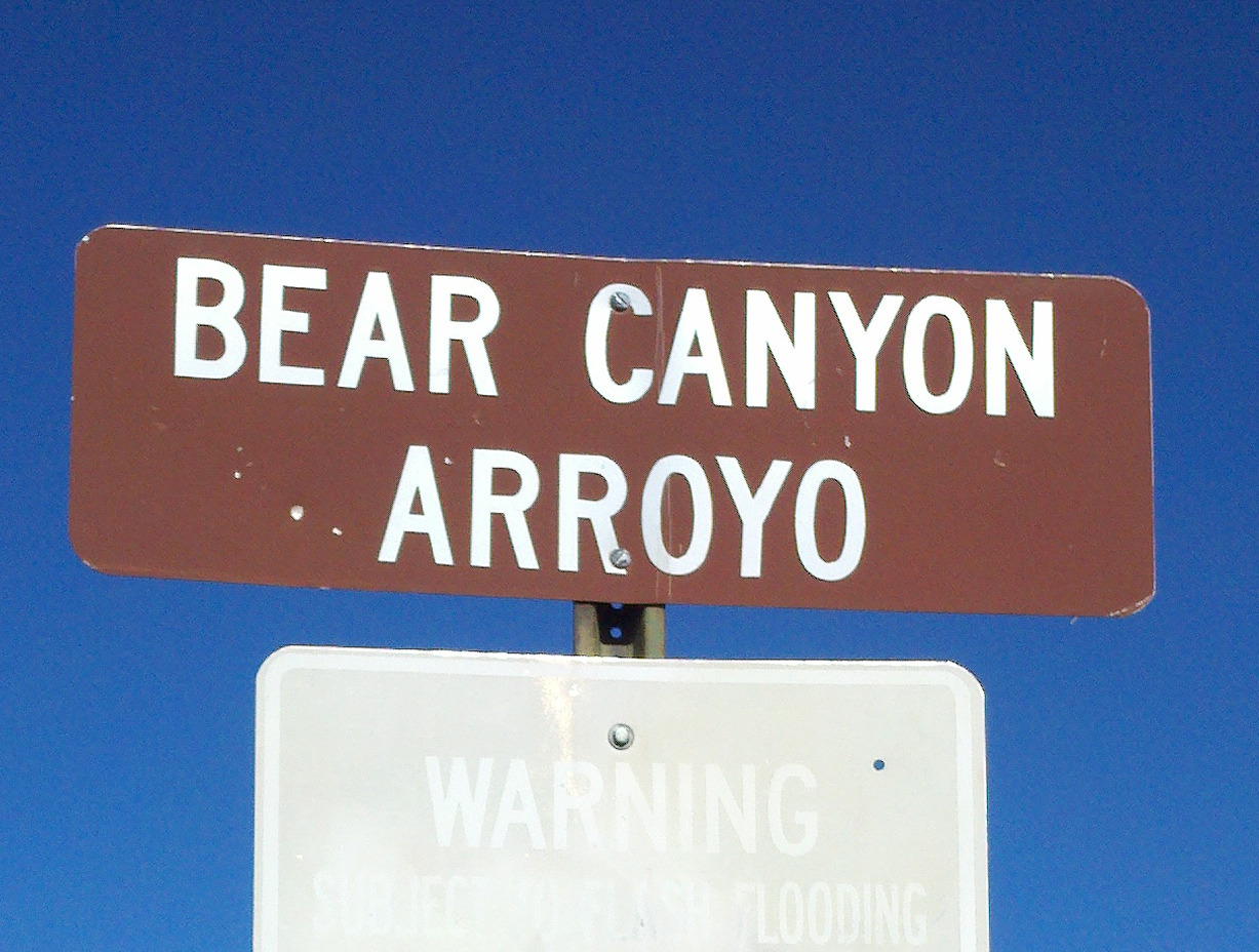 A borderline tautologous sign in Albuquerque, New Mexico, marking the location of a ravine named Arroyo del Oso ('Ravine/creek of the Bear') in Spanish, and Bear Canyon in English. Arroyo is literally 'stream' or 'creek' in Spanish, but in the region more often means 'ravine, small canyon, or dry creek bed' (most new Mexico arroyos are dry throughout the majority of the year). The sign's phrasing "Bear Canyon Arroyo" thus effectively means 'Bear Canyon Canyon'.